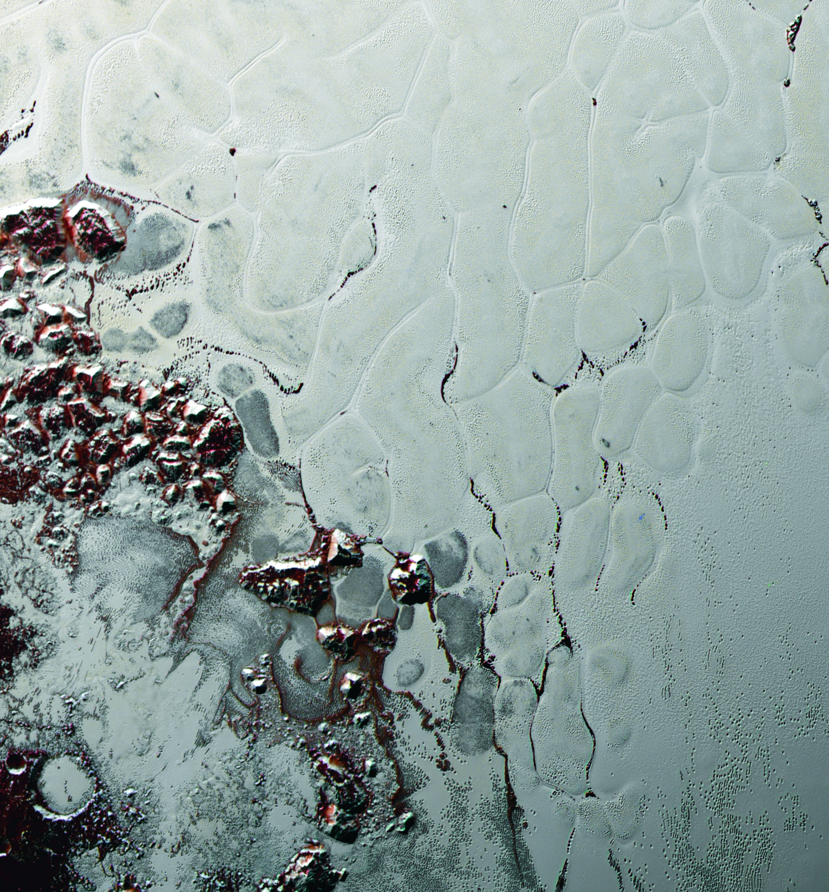 Scientists from NASA’s New Horizons mission used state-of-the-art computer simulations to show that the surface of Pluto’s informally named Sputnik Planum is covered with churning ice "cells" that are geologically young and turning over due to a process called convection. The scene above, which is about 250 miles (400 kilometers) across, uses data from the New Horizons Ralph/Multispectral Visible Imaging Camera (MVIC), gathered July 14, 2015.